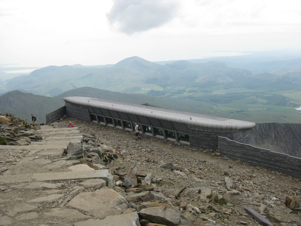 From Flickr. The summit cafe - "Hafod Eryri". Despite what some people say, I like the idea of a cafe on top of Snowdon. Plus it sells beer, so that in itself is an incentive to get to the top. I think it's really well designed as well, and blends in nicely with the landscape. The cafe is expensive though and in the toilets there is only a hot water tap, so that you can't fill up your water bottle and have to buy it instead at £1.20 a bottle. I figured out if I filled my bottle up with hot water, it would go cold.